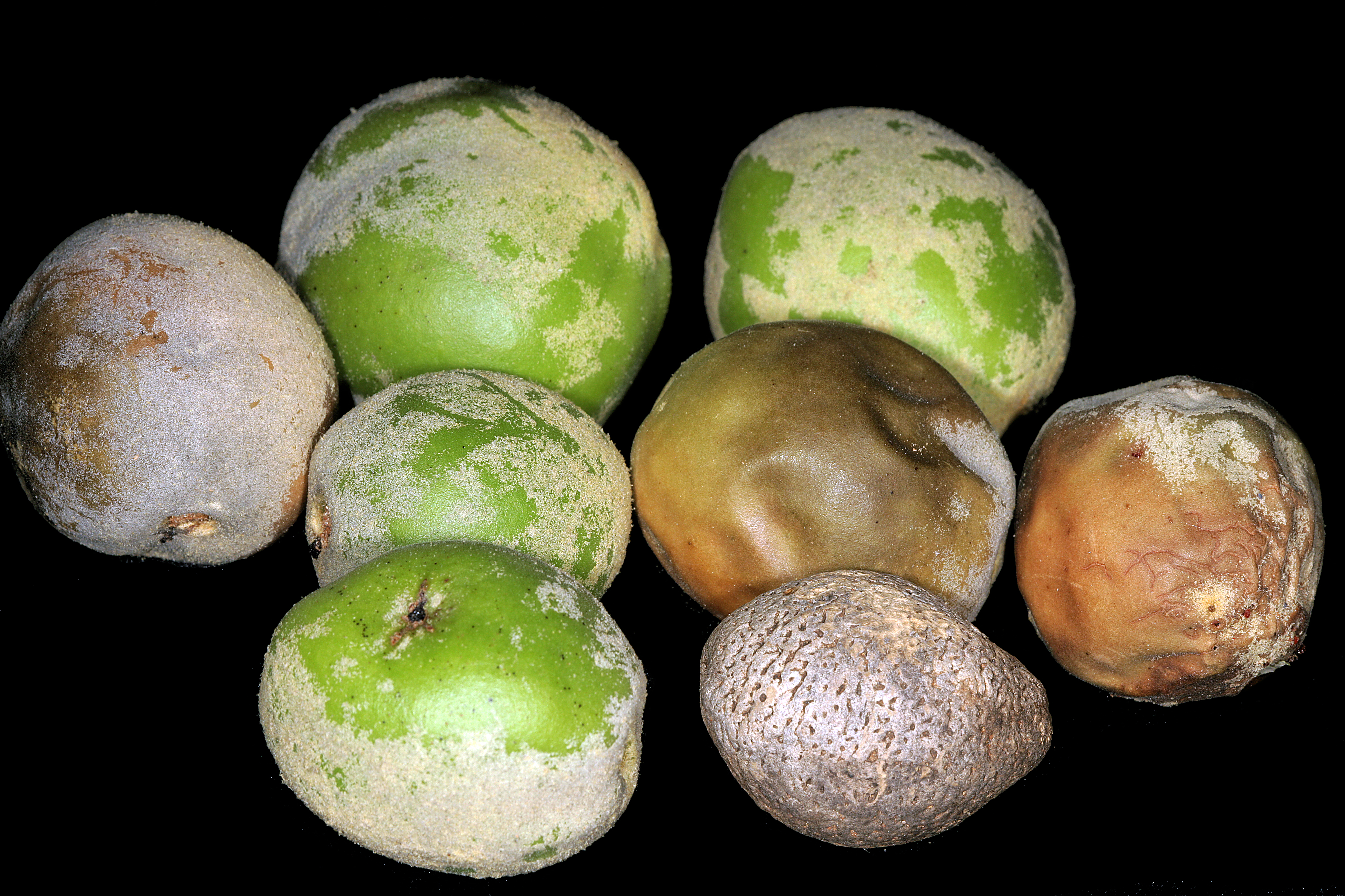 Schinziophyton rautanenii, mongongo; fruit with old nut right foreground